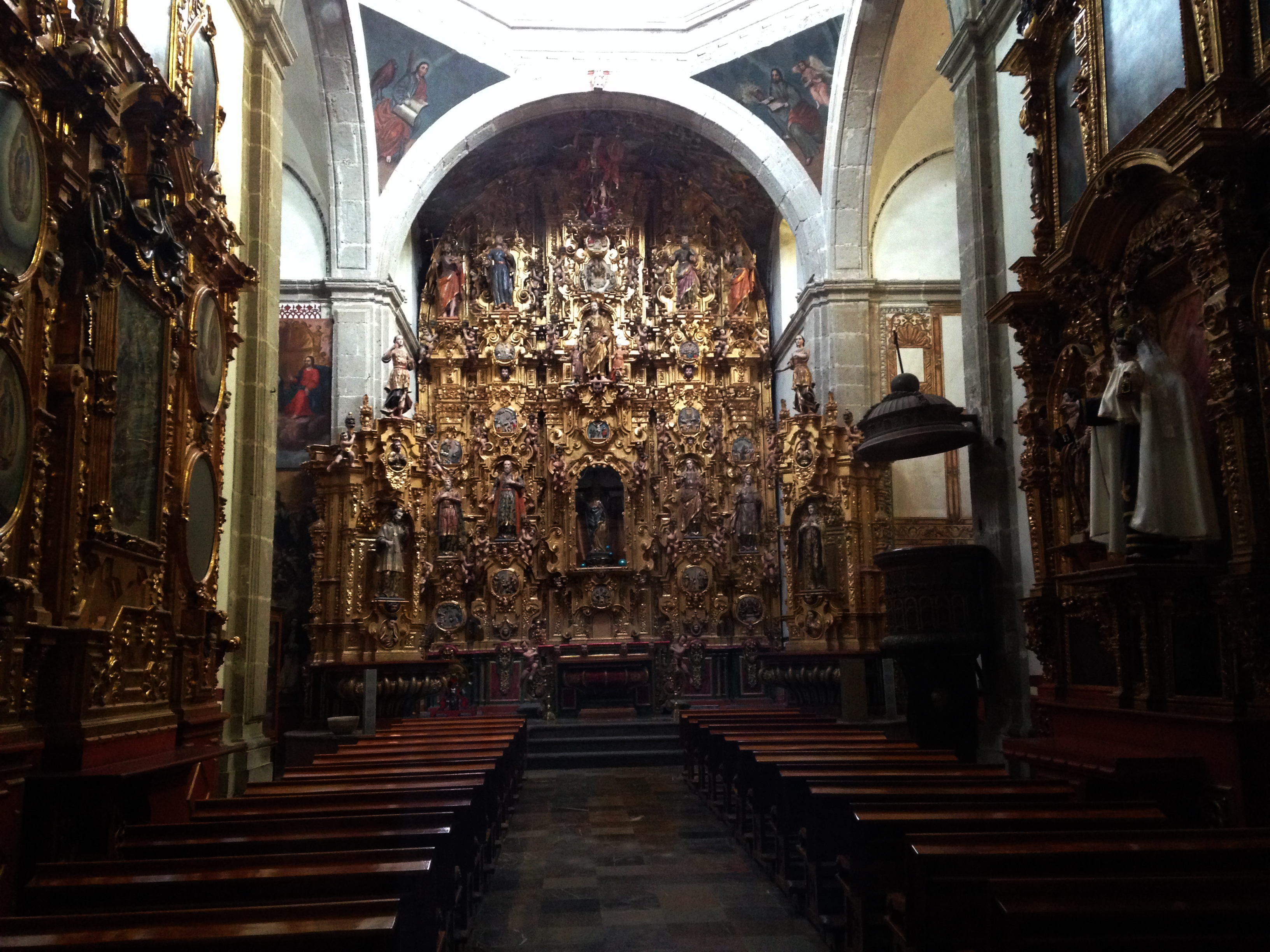 Capilla del Rosario in the temple of the apostles Philip and James in Azcapotzalco, Mexico City.